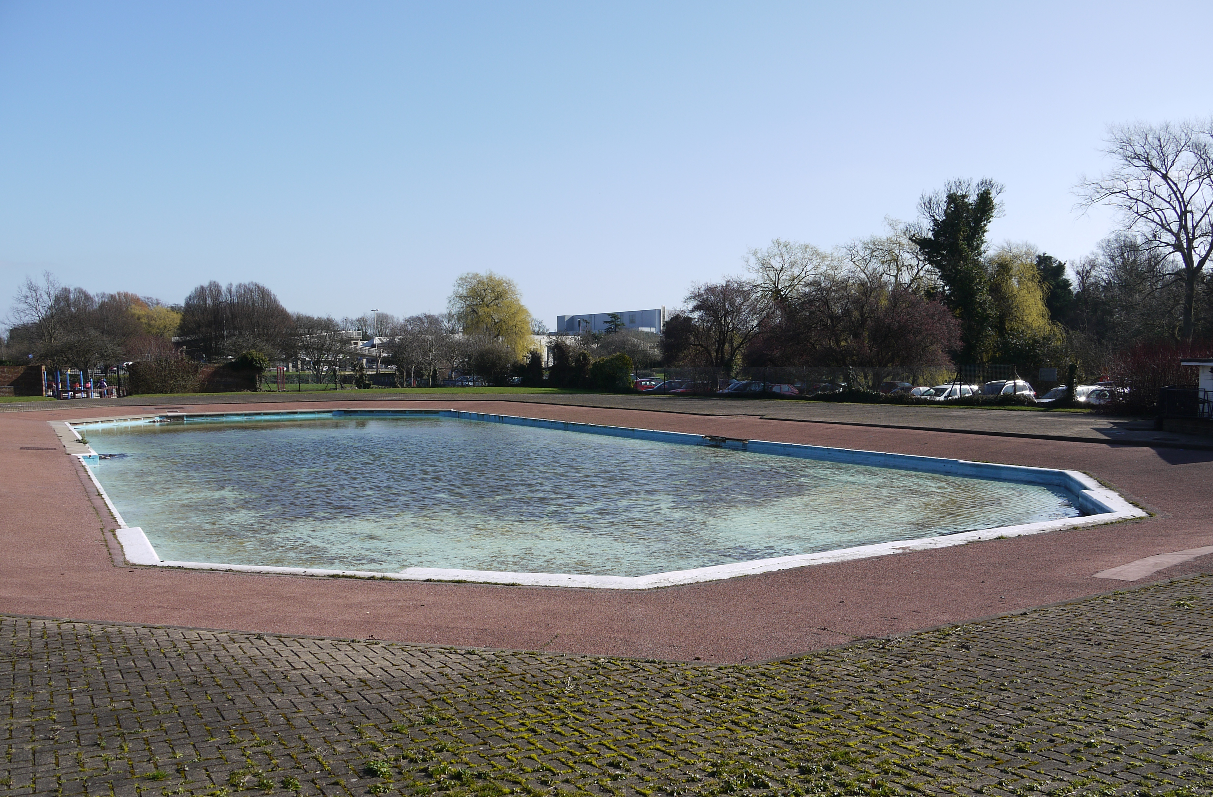 Photo fo the splash pool at hilsea lido.